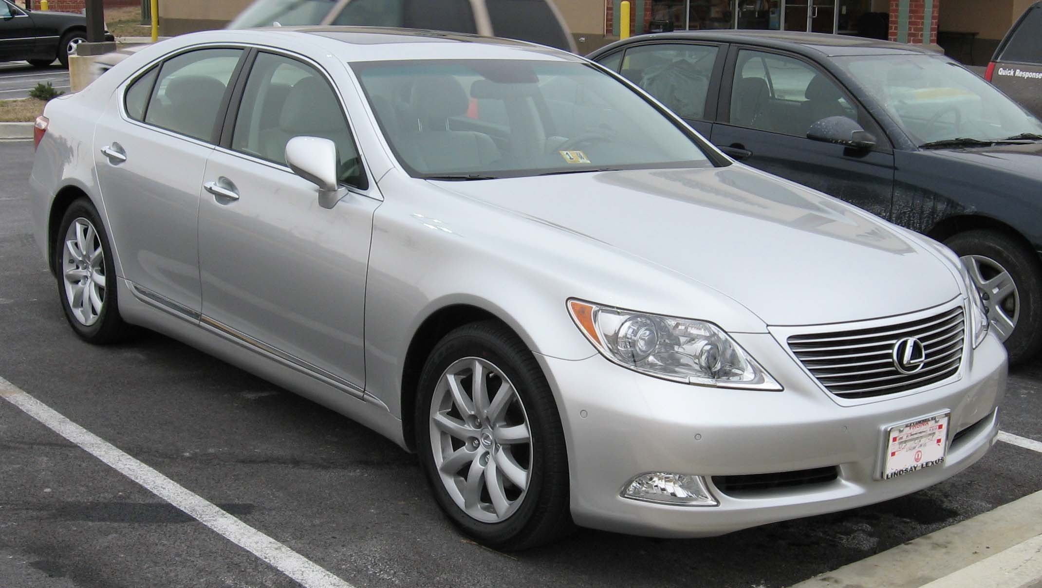 2007 Lexus LS460 photographed in USA.